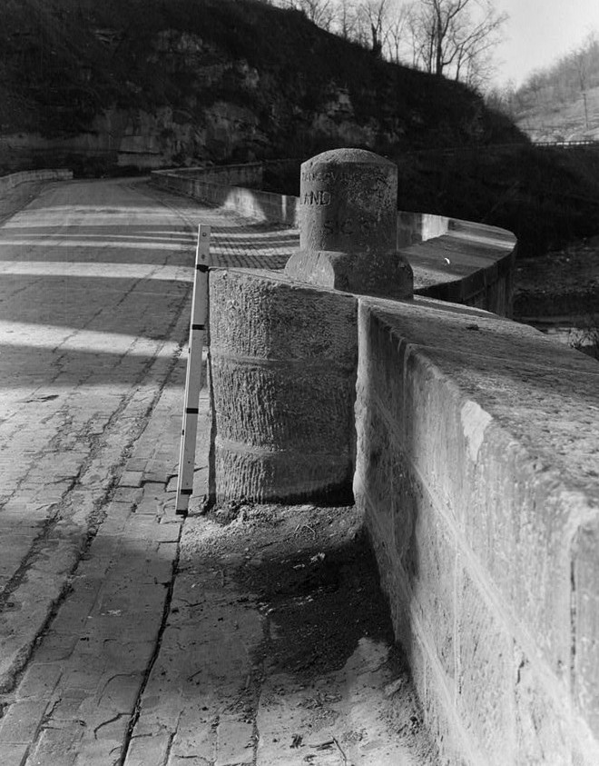 Milestone on Old "S" Bridge, Blaine vicinity (Belmont County, Ohio) cropped This file comes from the Historic American Buildings Survey (HABS), Historic American Engineering Record (HAER) or Historic American Landscapes Survey (HALS). These are programs of the National Park Service established for the purpose of documenting historic places. Records consist of measured drawings, archival photographs, and written reports. When reusing please credit: Library of Congress, Prints & Photographs Division, OHIO,7-BLA.V,2-1 This tag does not indicate the copyright status of the attached work. A normal copyright tag is still required. See Commons:Licensing for more information. English | +/− This work is in the public domain in the United States because it is a work prepared by an officer or employee of the United States Government as part of that person’s official duties under the terms of Title 17, Chapter 1, Section 105 of the US Code. See Copyright. Note: This only applies to original works of the Federal Government and not to the work of any individual U.S. state, territory, commonwealth, county, municipality, or any other subdivision. This template also does not apply to postage stamp designs published by the United States Postal Service since 1978. (See § 313.6(C)(1) of Compendium of U.S. Copyright Office Practices). It also does not apply to certain US coins; see The US Mint Terms of Use. This file has been identified as being free of known restrictions under copyright law, including all related and neighboring rights.